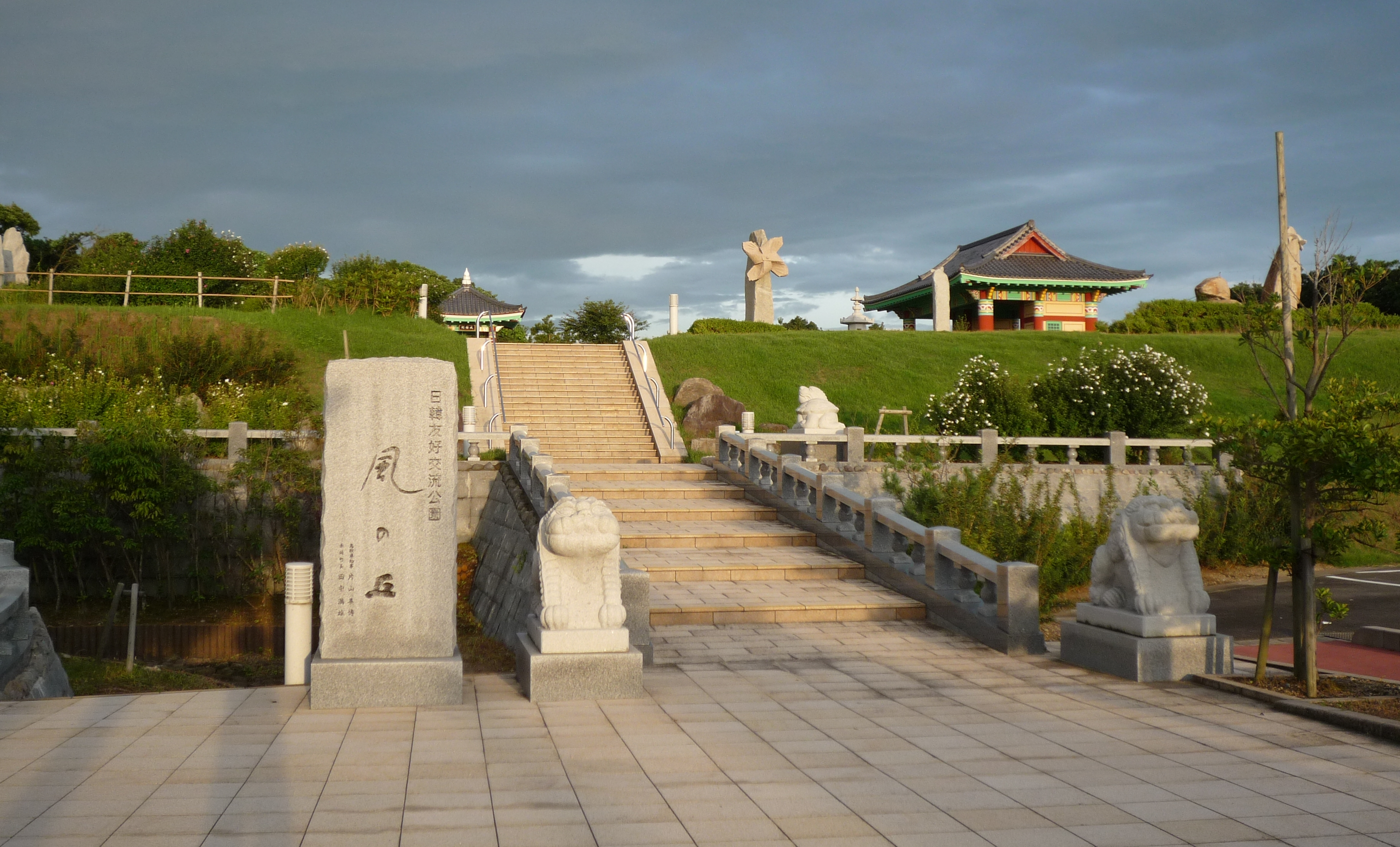 Japan-Korea Friendship Exchange Park Kaze-no-Oka (Hill of Winds) at Michinoeki Port Akasaki in Kotoura Town, Tottori Prefecture, Japan